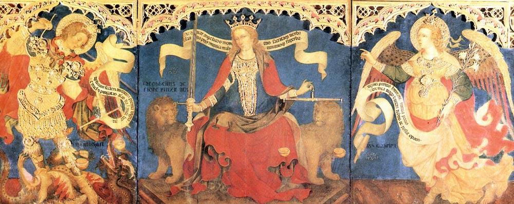 Justice seated between two lions and the archangels Michael and Gabriel. She holds her attributes sword and scales.